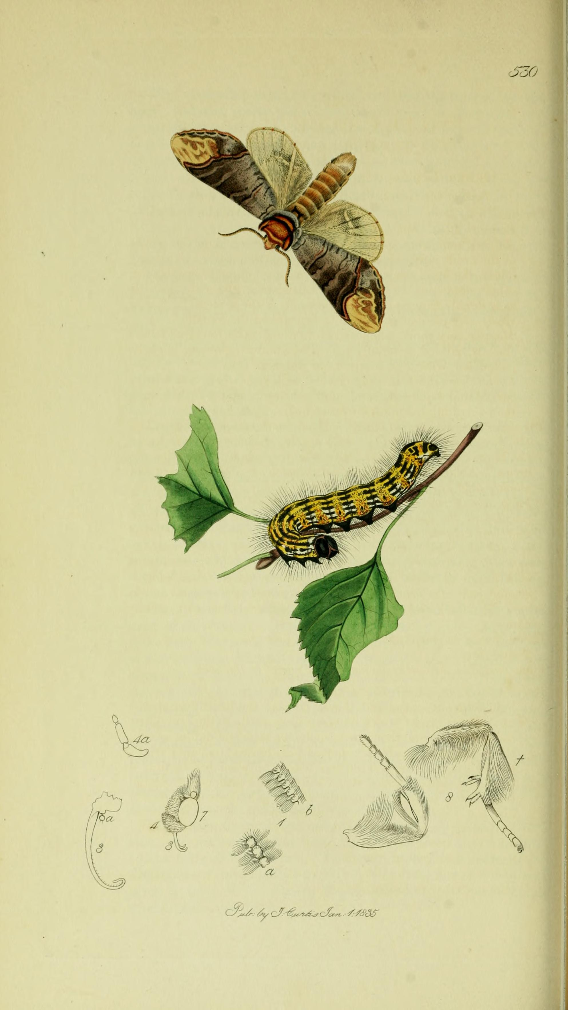 An illustration from British Entomology by John Curtis. Pygaera bucephala or Phalera bucephala (Buff-tip).